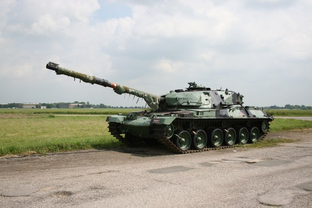 Chieftain tank at RAF Manby